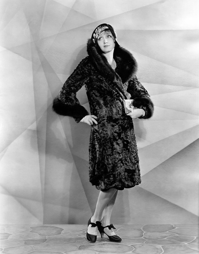 Photograph of Hedda Hopper